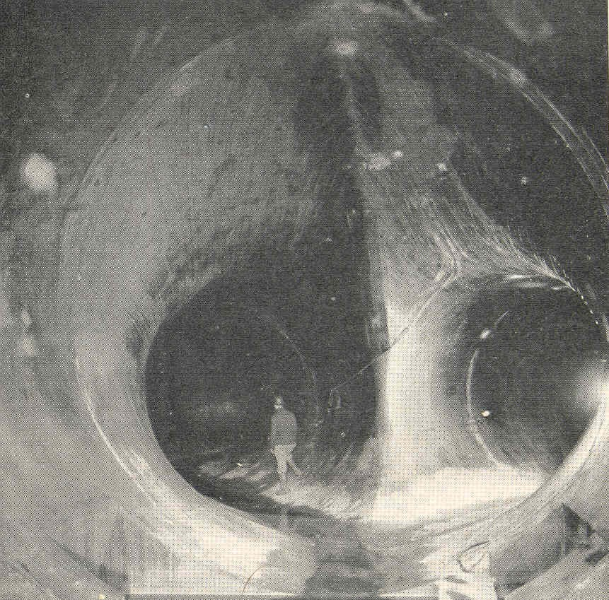 A worker walks through the conduit tunnel of TVA's Apalachia Dam, which carries water from the dam's reservoir to the dam's downstream powerhouse. This photo shows the point at which the tunnel splits into two smaller tunnels. Apalachia Dam is located along the Hiwassee River in Cherokee County, North Carolina, USA.